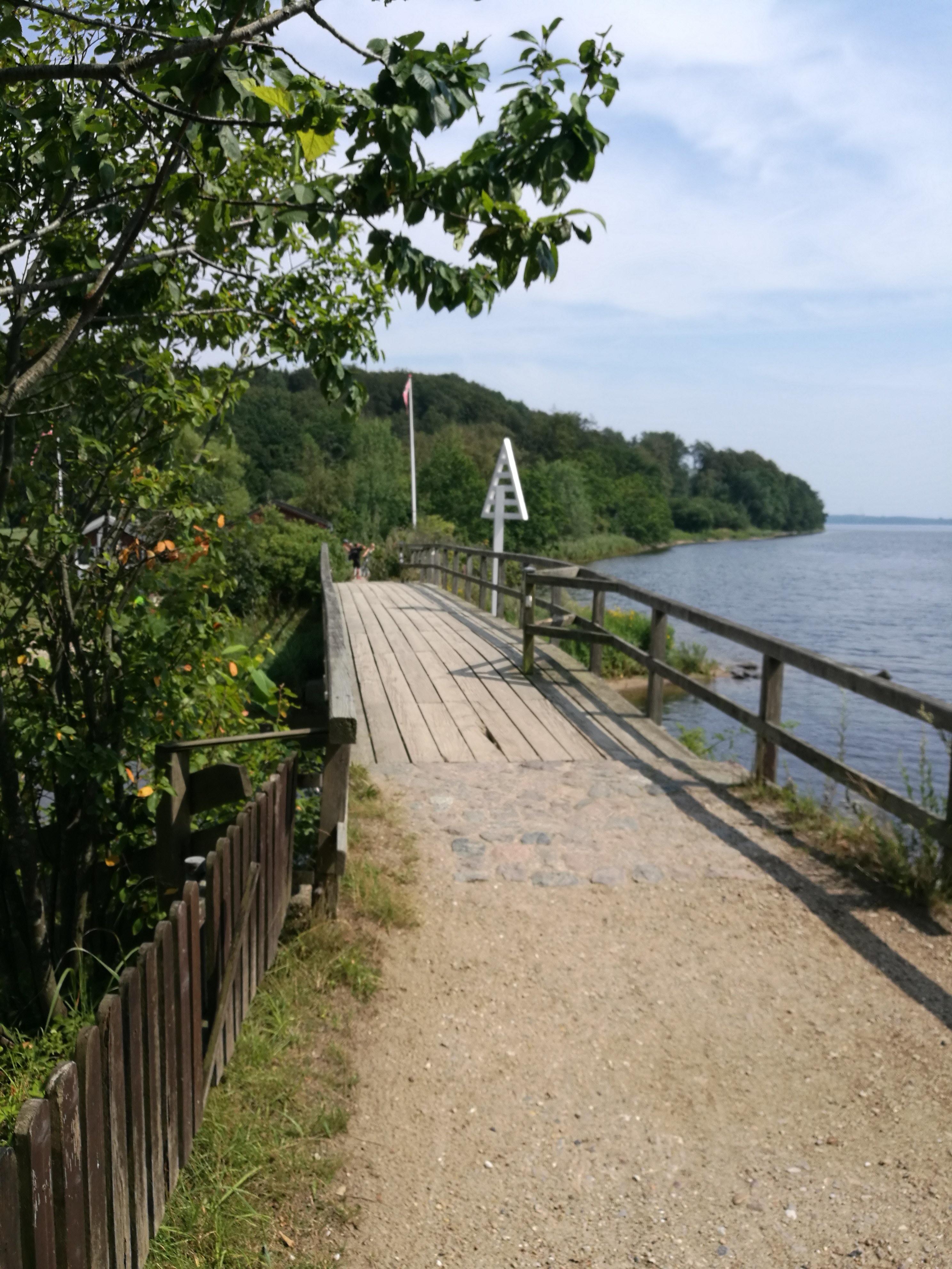 Krusau Bridge Border Danmark, Germany